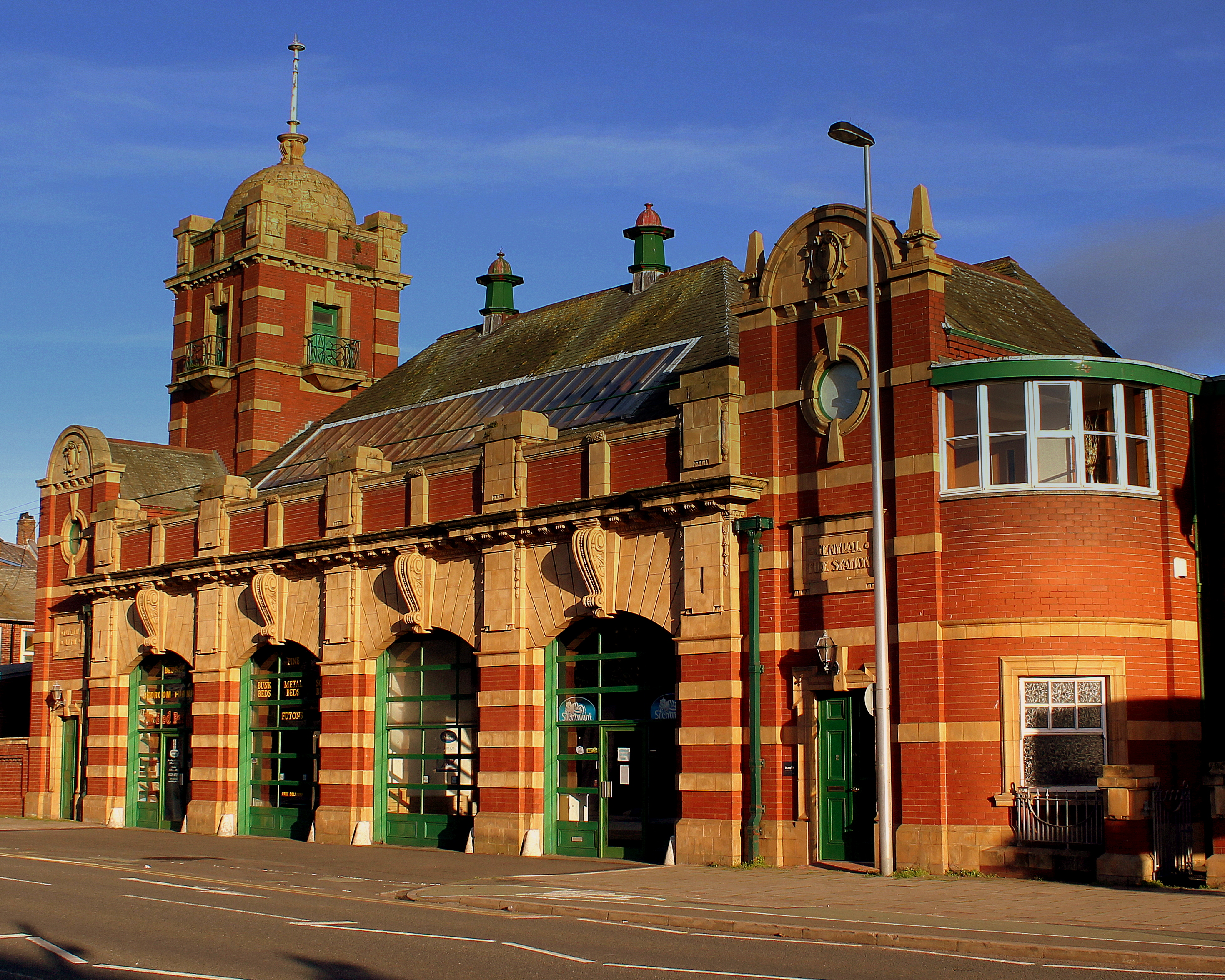 The former Central Fire Station on Abbey Road, Barrow-in-Furness, Cumbria, England pictured in October 2013.